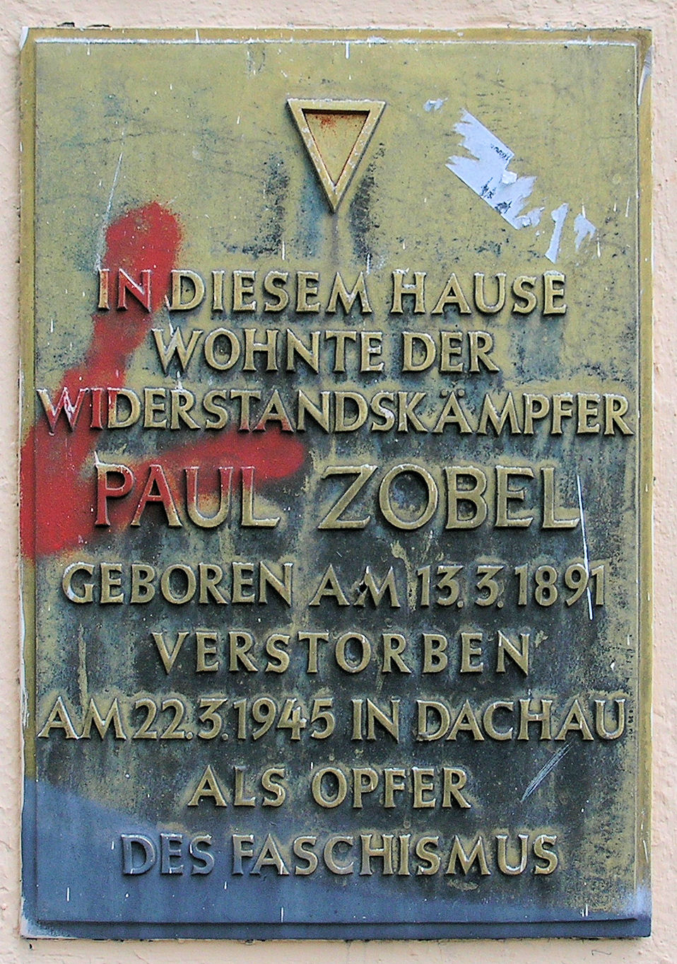 Memorial plaque, Paul Zobel, Berliner Straße 79, Berlin-Pankow, Germany Koordinate:52°33′19″N 13°24′54″E / 52.55528°N 13.415°E